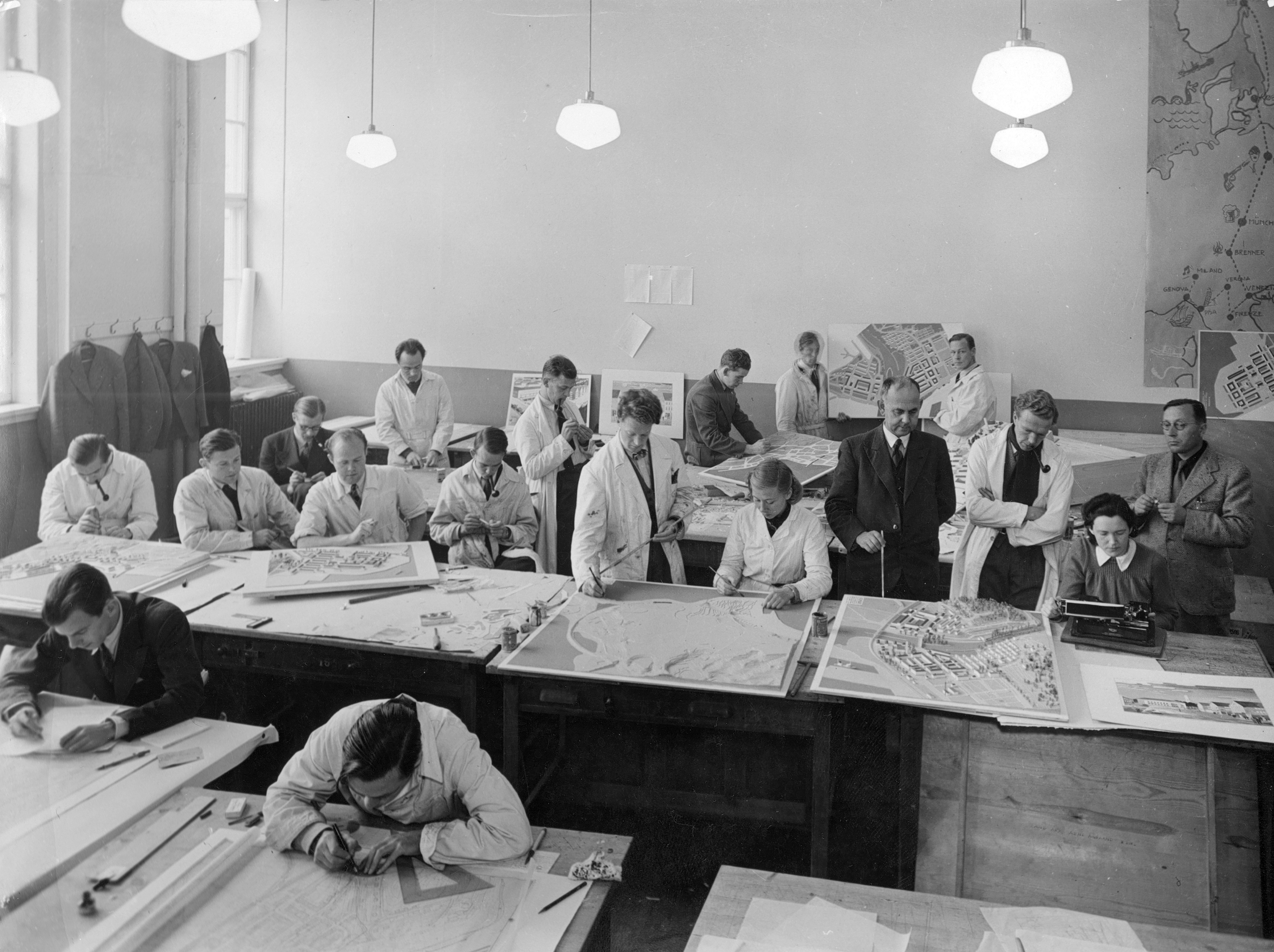 the Norwegian professor, architect and planner Sverre Pedersen with assistents, in the BSR project. In one of the rooms in the main building of The Norwegian Institute of Technology (NTH), Trondheim